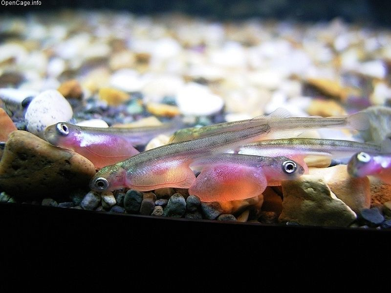 Newborn salmon alevin with their attached egg yolks